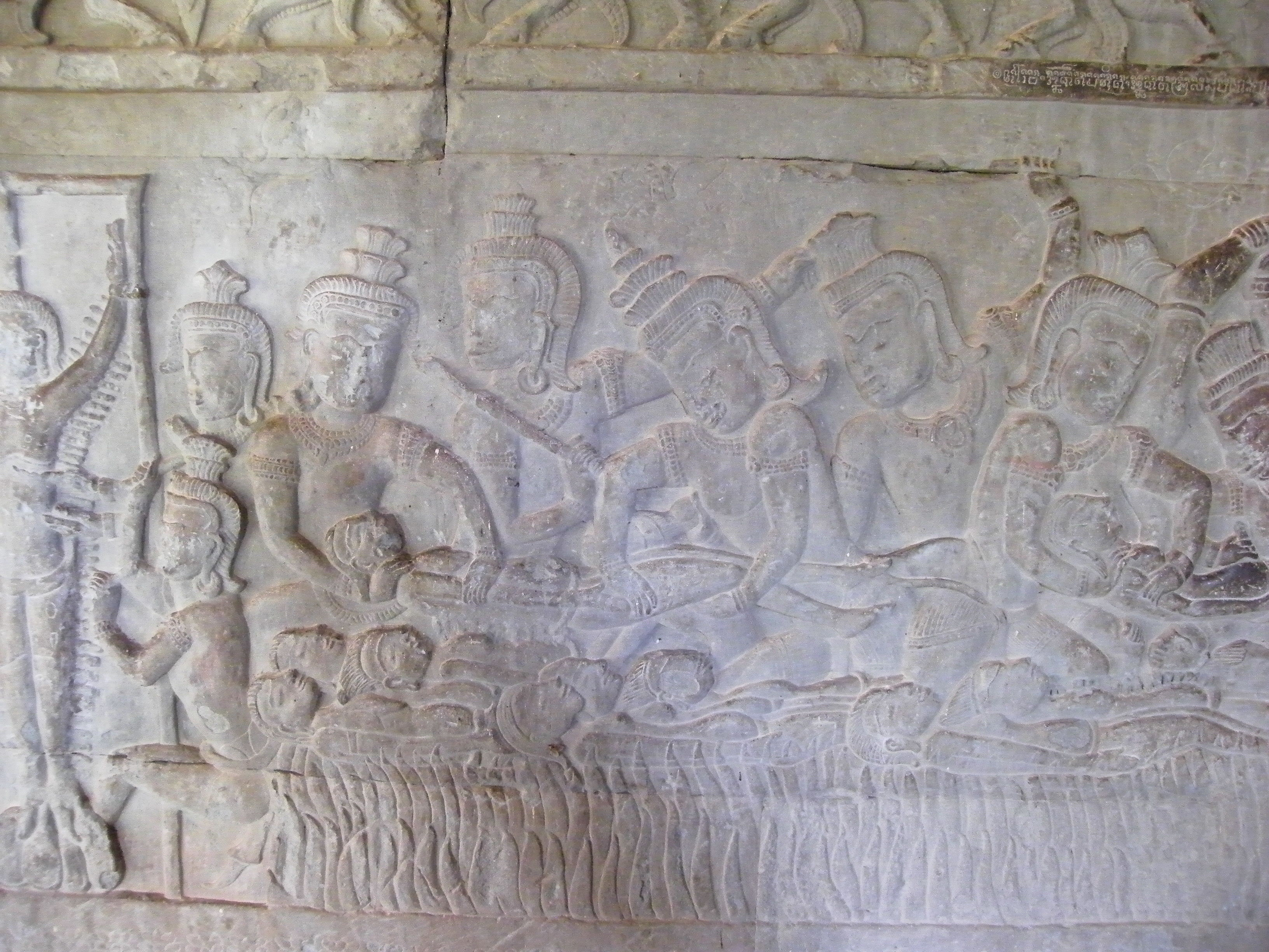 Bas-relief, Outer Gallery, Angkor Wat, Cambodia. This is a detail from the portion depicting the 32 hells & 37 heavens of Hindu mythology.